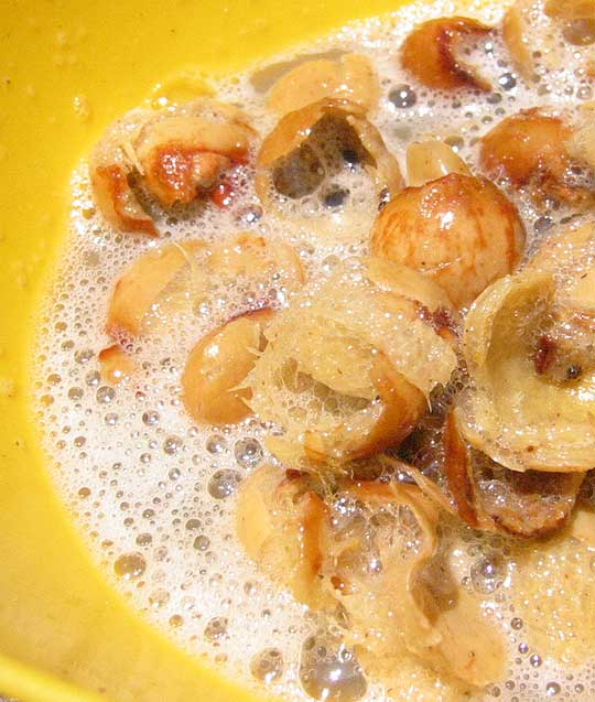 Soapy solution made from Sapindus saponaria fruits. They were soaked for a few days and then squeezed. This isn't the usual/traditional way of making such soap..